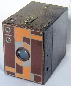 Kodak Beau Brownie design by Walter Dorwin Teague.